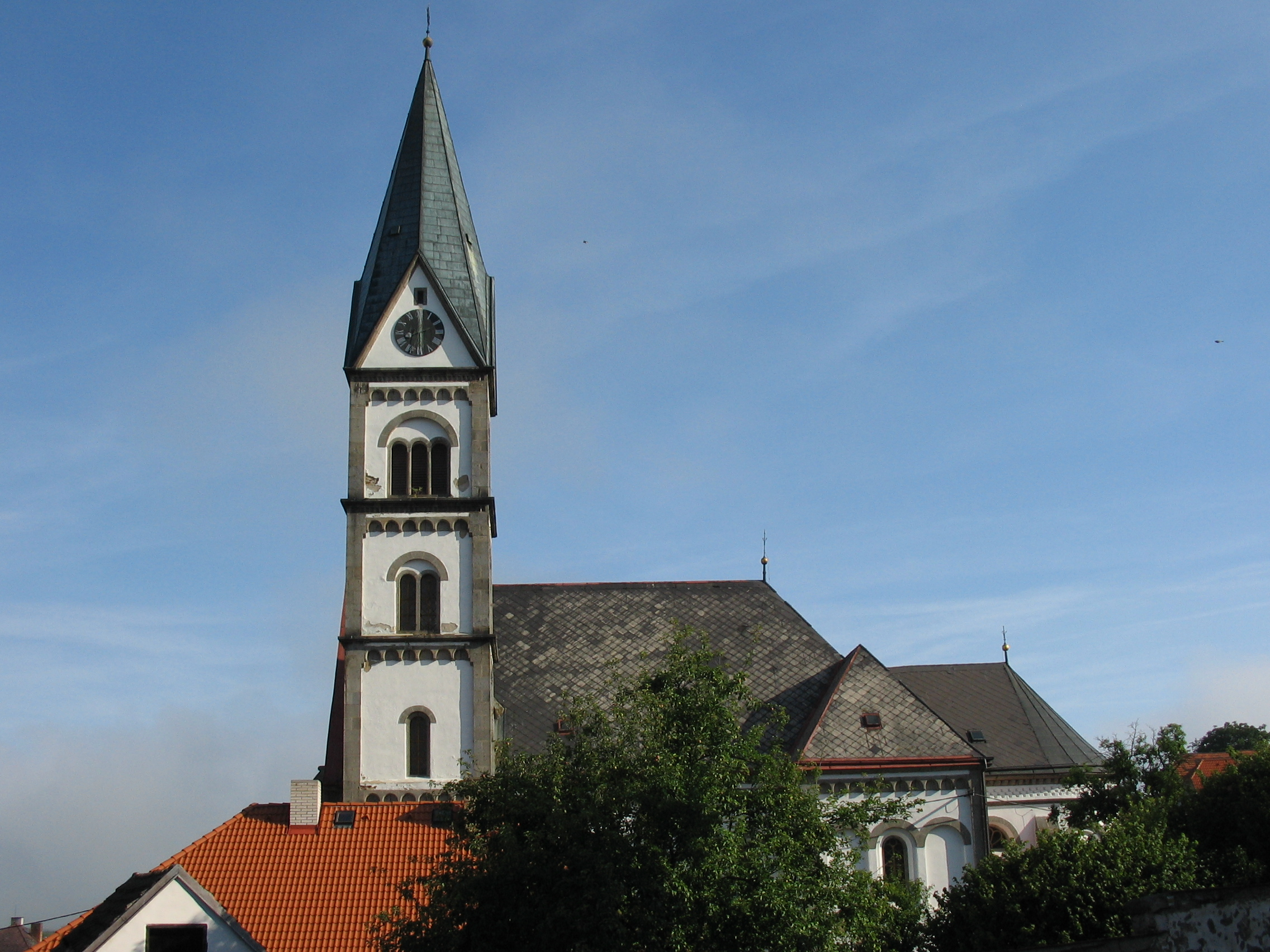 Church of the Transfiguration in Žihobce (view from south), Klatovy District, Czech Republic